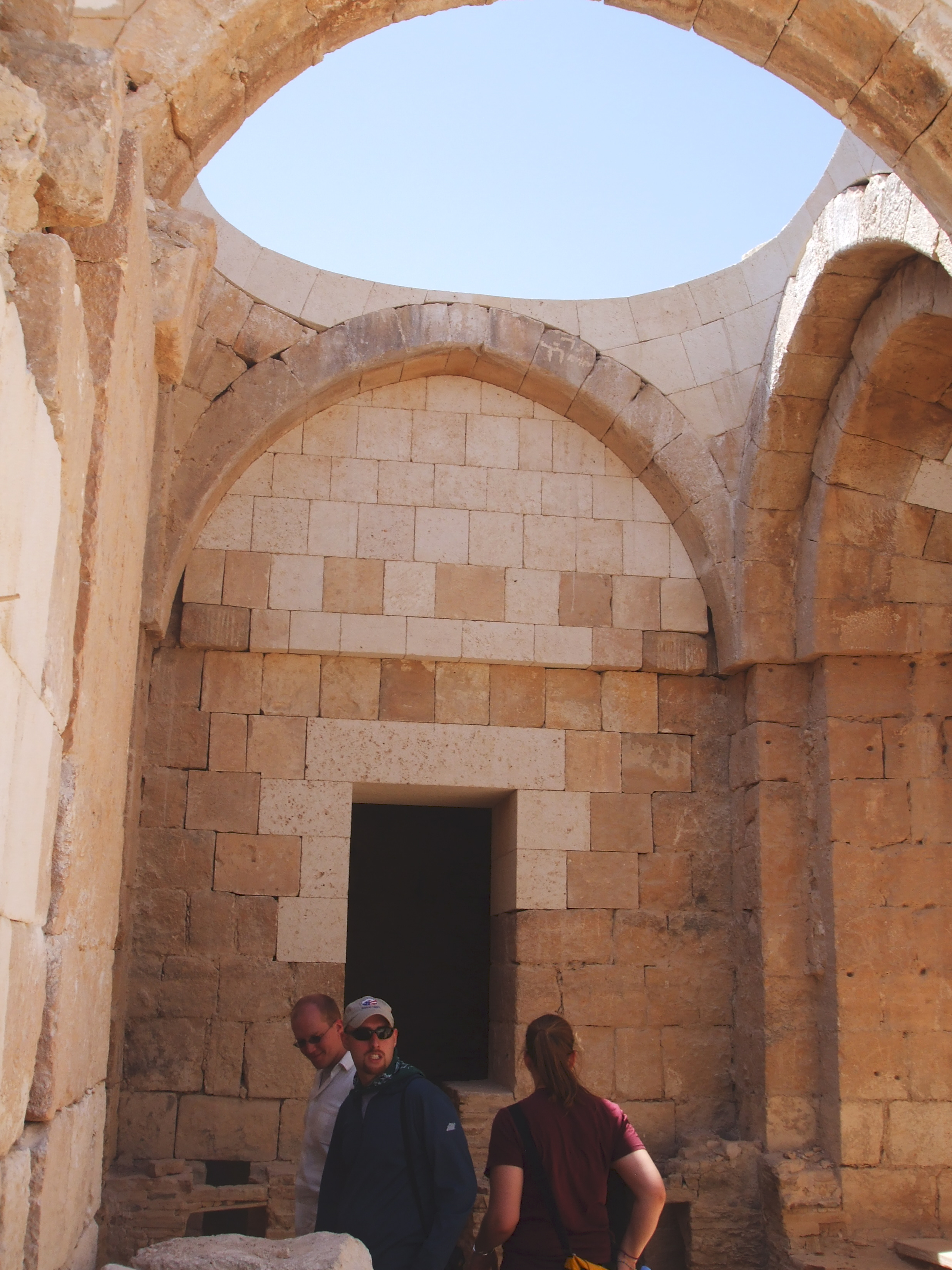 This is the central vault of the Qasr Hammam as-Sarah